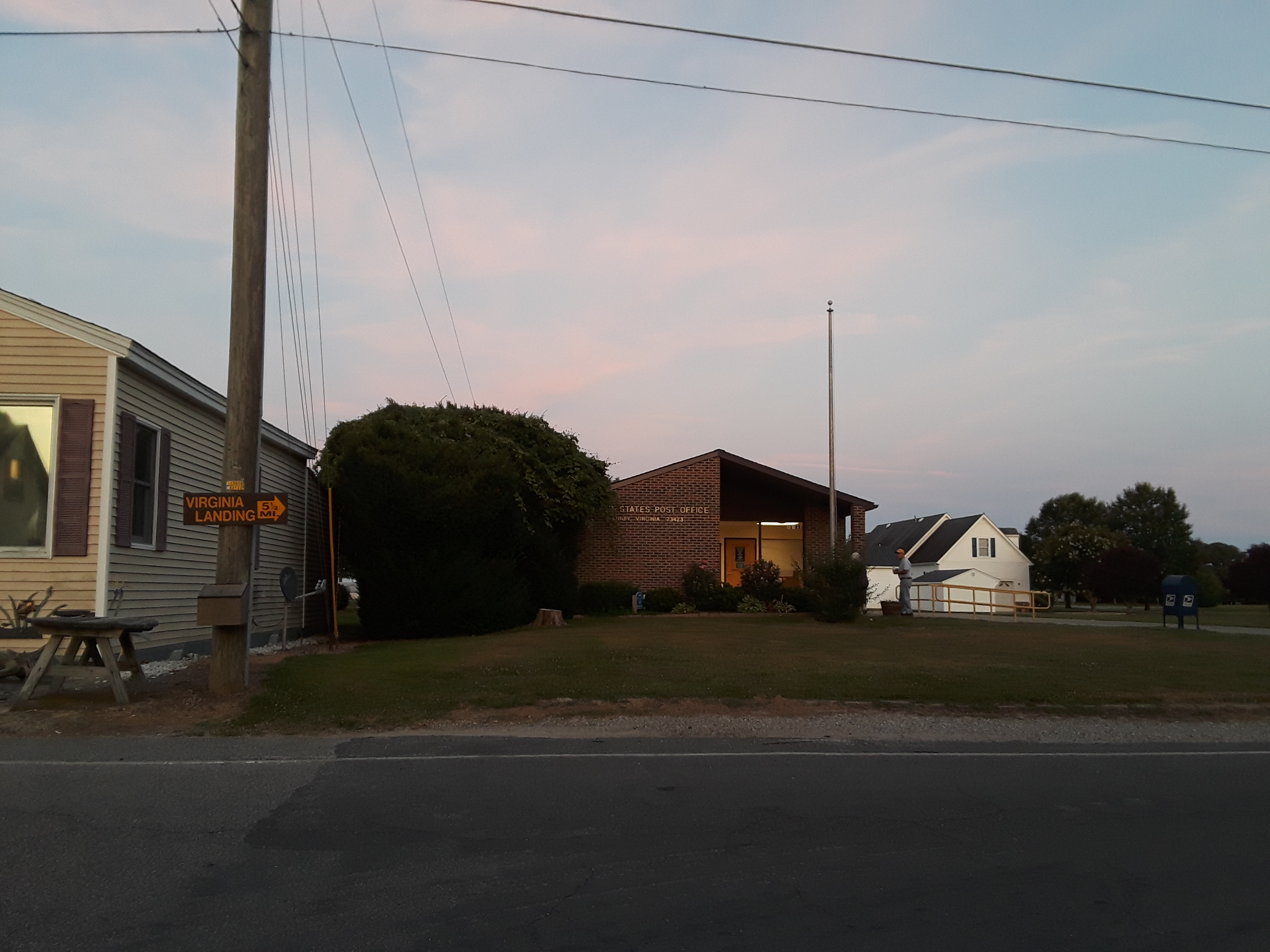 Taken on a visit to the Eastern Shore of Virginia, July 2018